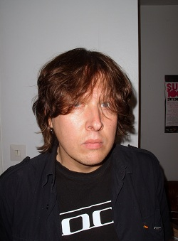 Ari Väntänen in 2011.